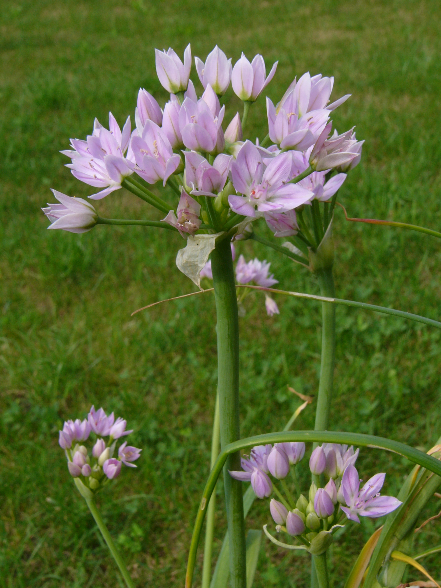 Allium roseum